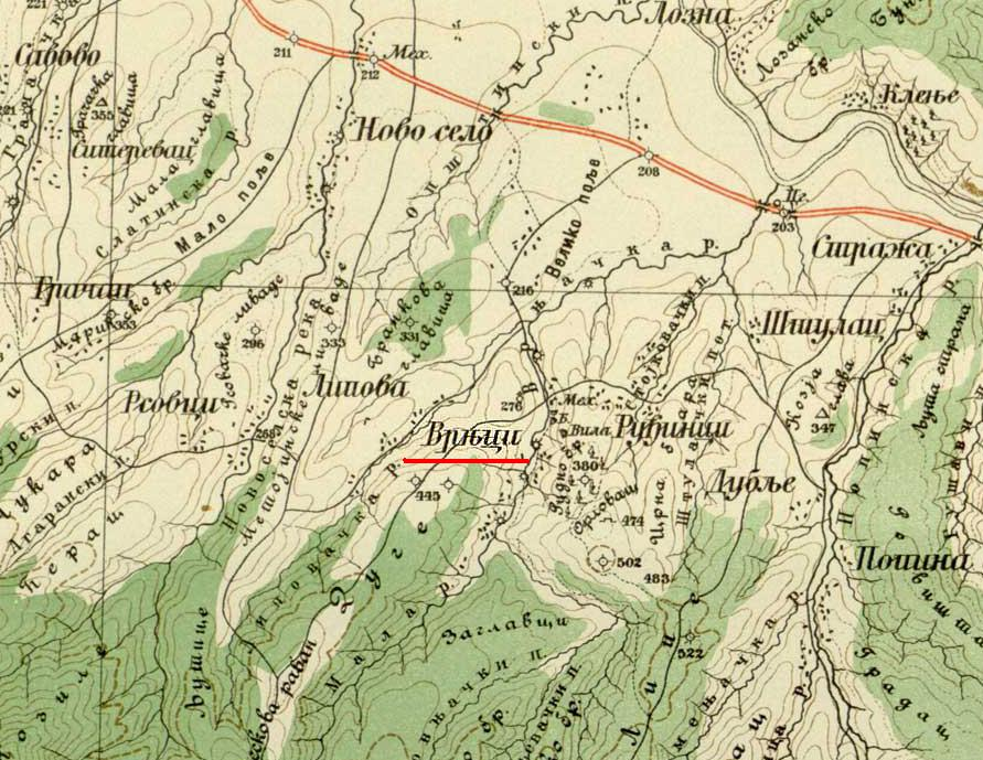 Derivated map of vilage Vrnjci. Map taken from: Digital copies of the Đeneralštabna map of Serbia. The map is printed in Belgrade, the 1894th , in 94 sections, with a topographic key and in scale 1:75.000. This is the first special military map of Serbia was published in the country.